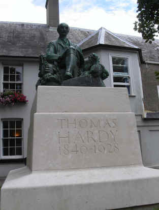 Monument voor Thomas Hardy in Dorchester (eigen foto)